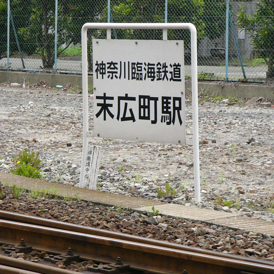 Suehiro-cho Station, Kanagawa Rinkai Tetsudo (Seaside railway of Kanagawa). Place: Suehiro-cho Station, Kawasaki Kawasaki Kanagawa, Japan.